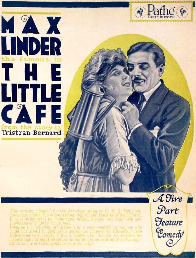 American advertisement for the U.S. release of the French film The Little Cafe (1919) (original French title: Le petit café) with Max Linder and Wanda Lyon, on page 4195 of the May 15, 1920 Motion Picture News. This file does not violate French copyright of the film as the American ad uses a drawing and not a still from the film.